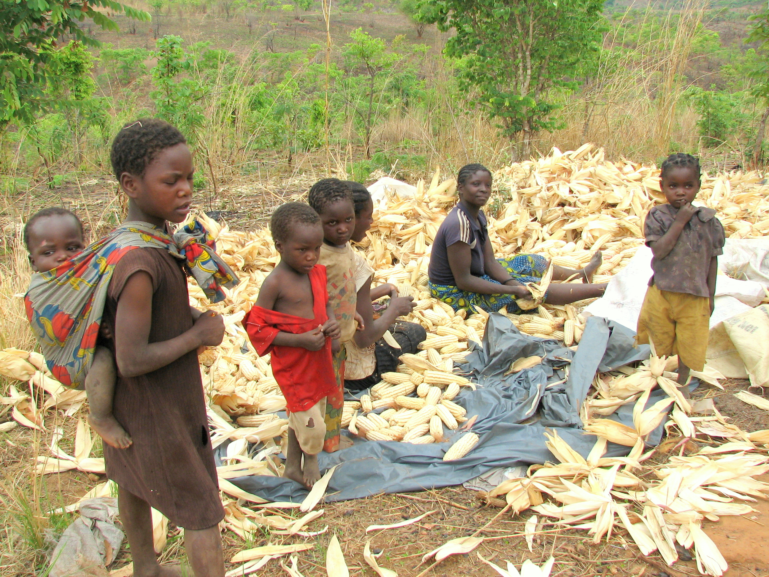 Woman from small village in Zambia peeling dry corn.